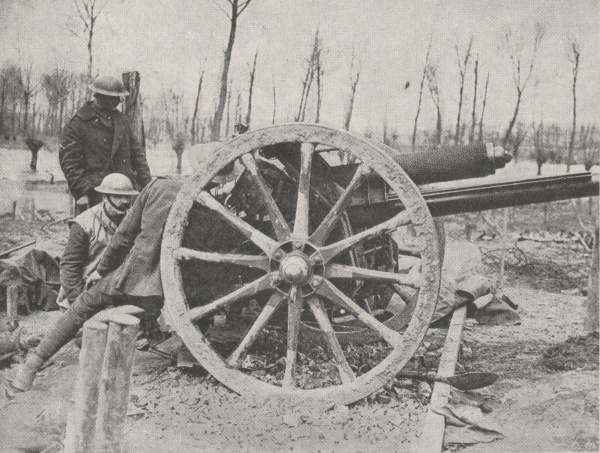 Photograph of British 18 pounder Mk II gun on MK I carriage, in action with Royal Horse Artillery gunners, World War I